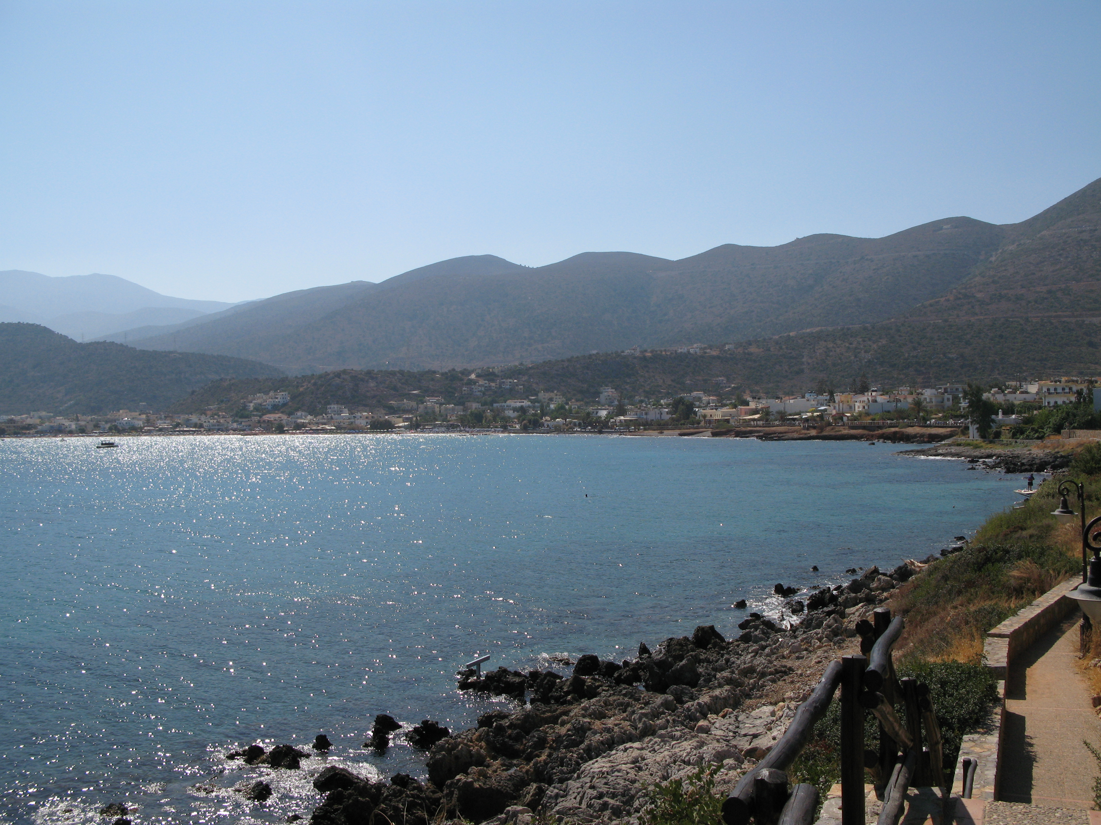 A view of the town of Stalis Crete